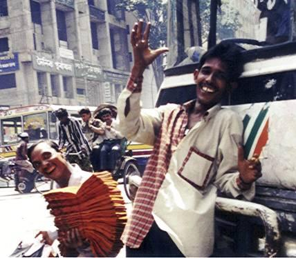 This photo was taken in July of 2001 of two Bangladeshi men near Topkhana Road in the capital city of Dhaka. Photo by James R. Bierman (taken on a low resolution digital camera) The source URL is from my personal web page at: I am the original photographer of this image and authorize its use here on Wikipedia.